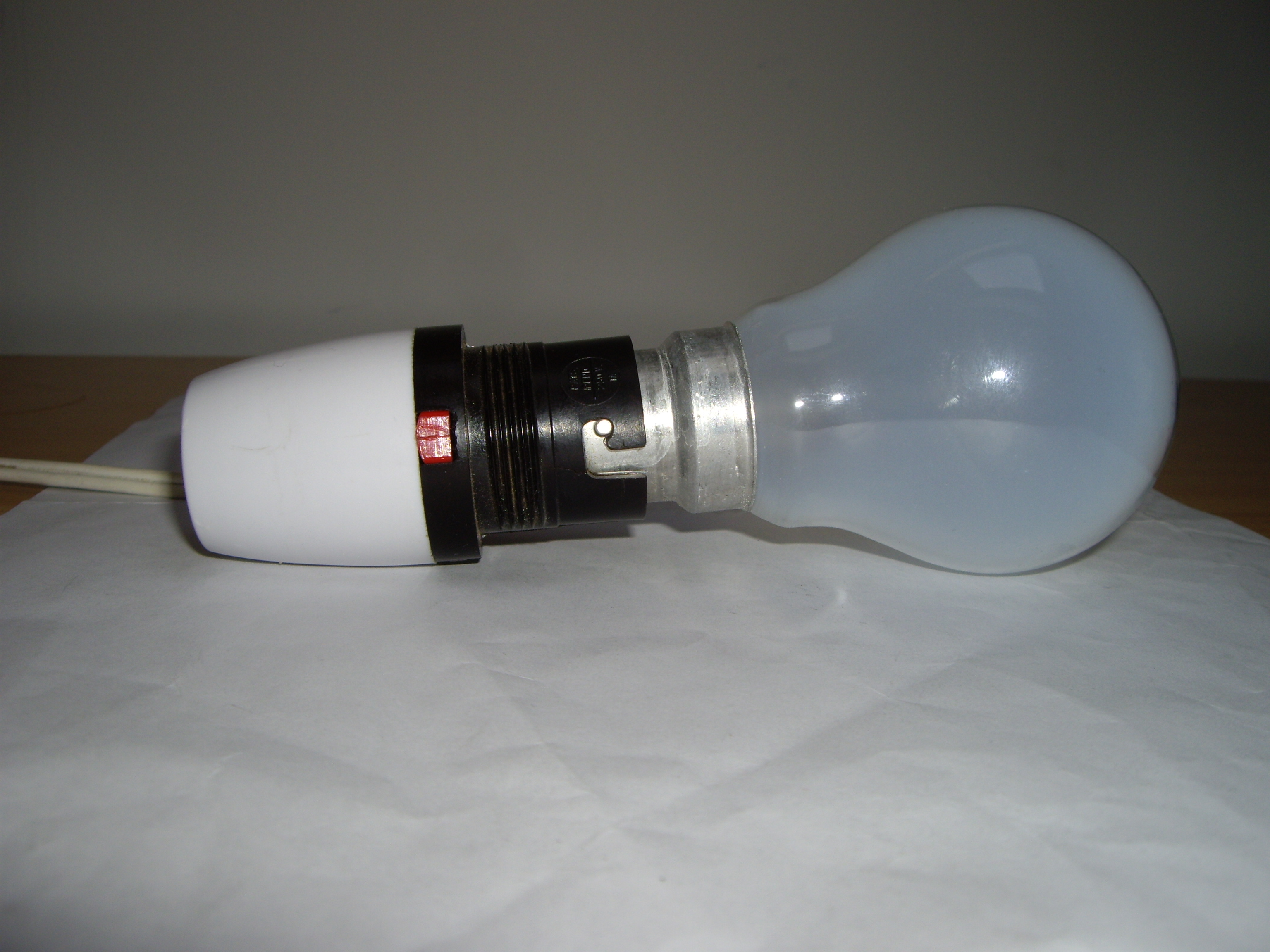 A bayonet mounted incandescent light bulb attached into the corresponding socket. The socket is part of the mounting (with red switch) from an old (c.1970) table lamp.